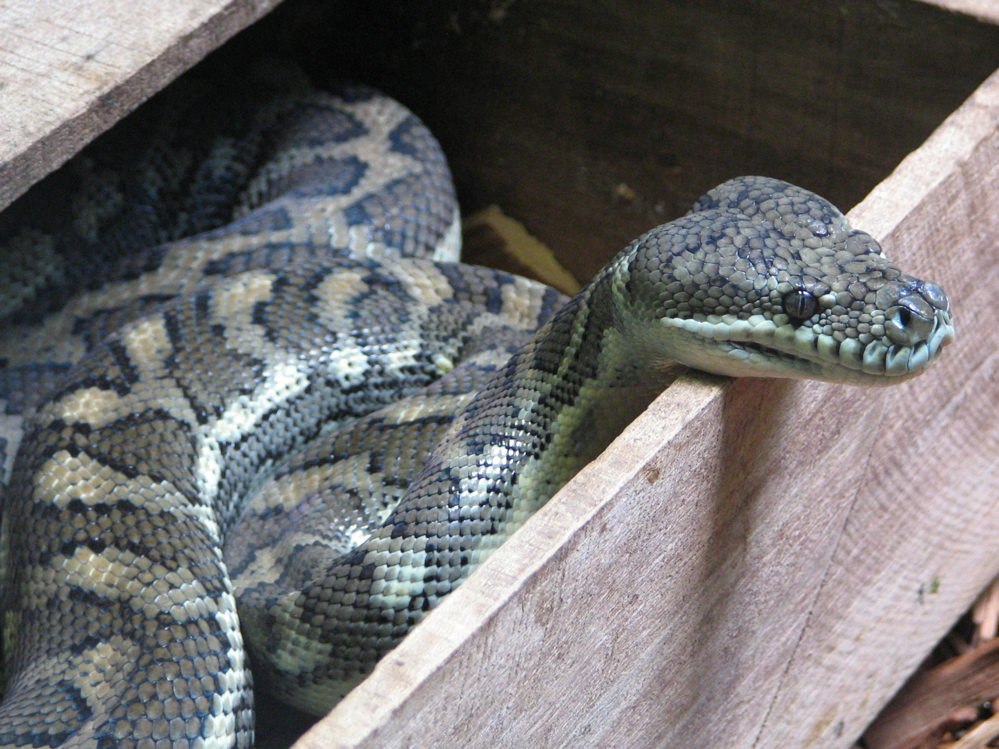 Python at Australia Zoo, own photo